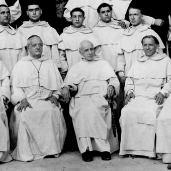 A photograph of Blessed Hyacinthe-Marie Cormier, O.P., the Master General of the Dominican Order from 1904 to 1916. Cormier is seated in the middle. To his right sits His Excellency Pio Alberto Del Corona, O.P., the Bishop of San Miniato.